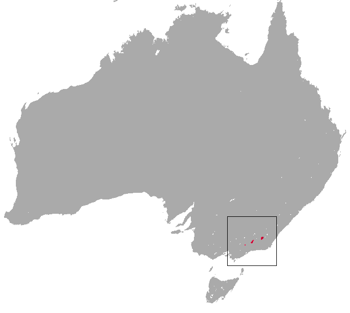 Mountain Pygmy Possum (Burramys parvus) range